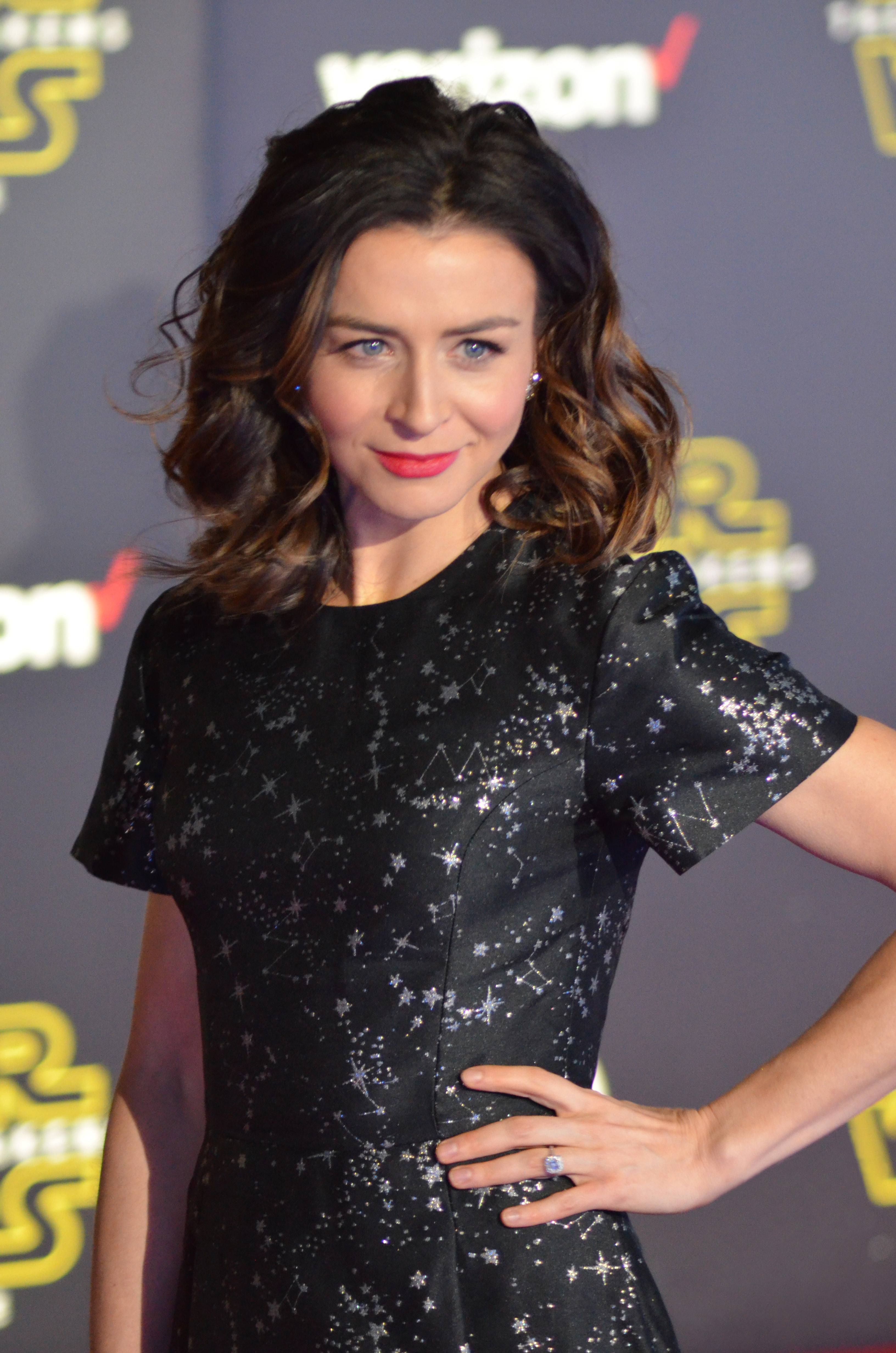 Caterina Scorsone at the World Premiere of Star Wars The Force Awakens Red Carpet -StarWars - DSC 0204 Mingle Media TV Red Carpet Report team were on the red carpet for the World Premiere of Star Wars: The Force Awakens at the El Capitan Theatre, the TCL Chinese and the Dolby Theater in Hollywood. Star Wars: The Force Awakens, opens in theaters December 18, 2015 For video interviews and other Red Carpet Report coverage, please visit and follow us on Twitter and Facebook at: About Star Wars: The Force Awakens The May 25, 1977 theatrical debut of Star Wars --- on a scant 32 screens across America -- was destined to change the face of cinema forever. An instant classic and an unparalleled box office success, the rousing "space opera" was equal parts fairy tale, western, 1930s serial and special effects extravaganza, with roots in mythologies from cultures around the world. From the mind of visionary writer/director George Lucas, the epic space fantasy introduced the mystical Force into the cultural vocabulary and it continues to grow, its lush universe ever-expanding through film, television, publishing, video games and more. Visit Star Wars at Subscribe to Star Wars on YouTube at Like Star Wars on Facebook at Follow Star Wars on Twitter at Follow Star Wars on Instagram at Follow Star Wars on Tumblr at For more of Mingle Media TV’s Red Carpet Report coverage, please visit our website and follow us on Twitter and Facebook here